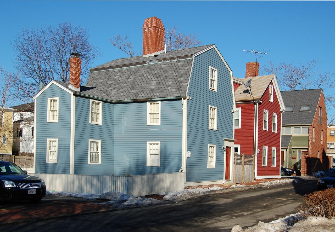 William Pike house, nineteenth century house whose namesake was abolitionist and an associate of Nathaniel Hawthorne. May be associated with the underground railroad. Located on Crombie Street in Salem, Massachusetts.